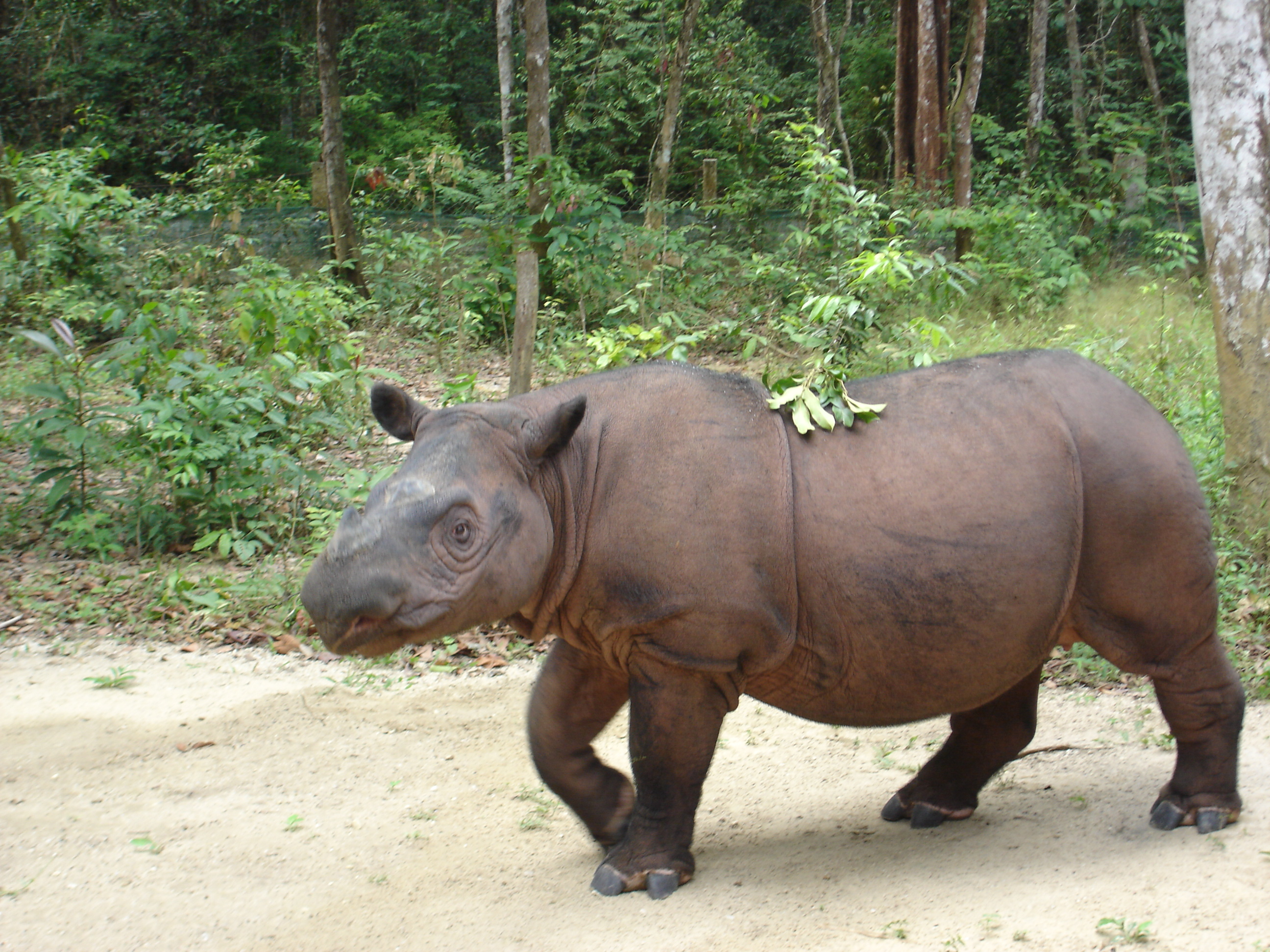 Sumatran Rhinoceros (Dicerorhinus sumatrensis sumatrensis) named Ratu at Sumatran Rhino Sanctuary, Way Kambas, Lampung Province, Sumatra Island, Indonesia